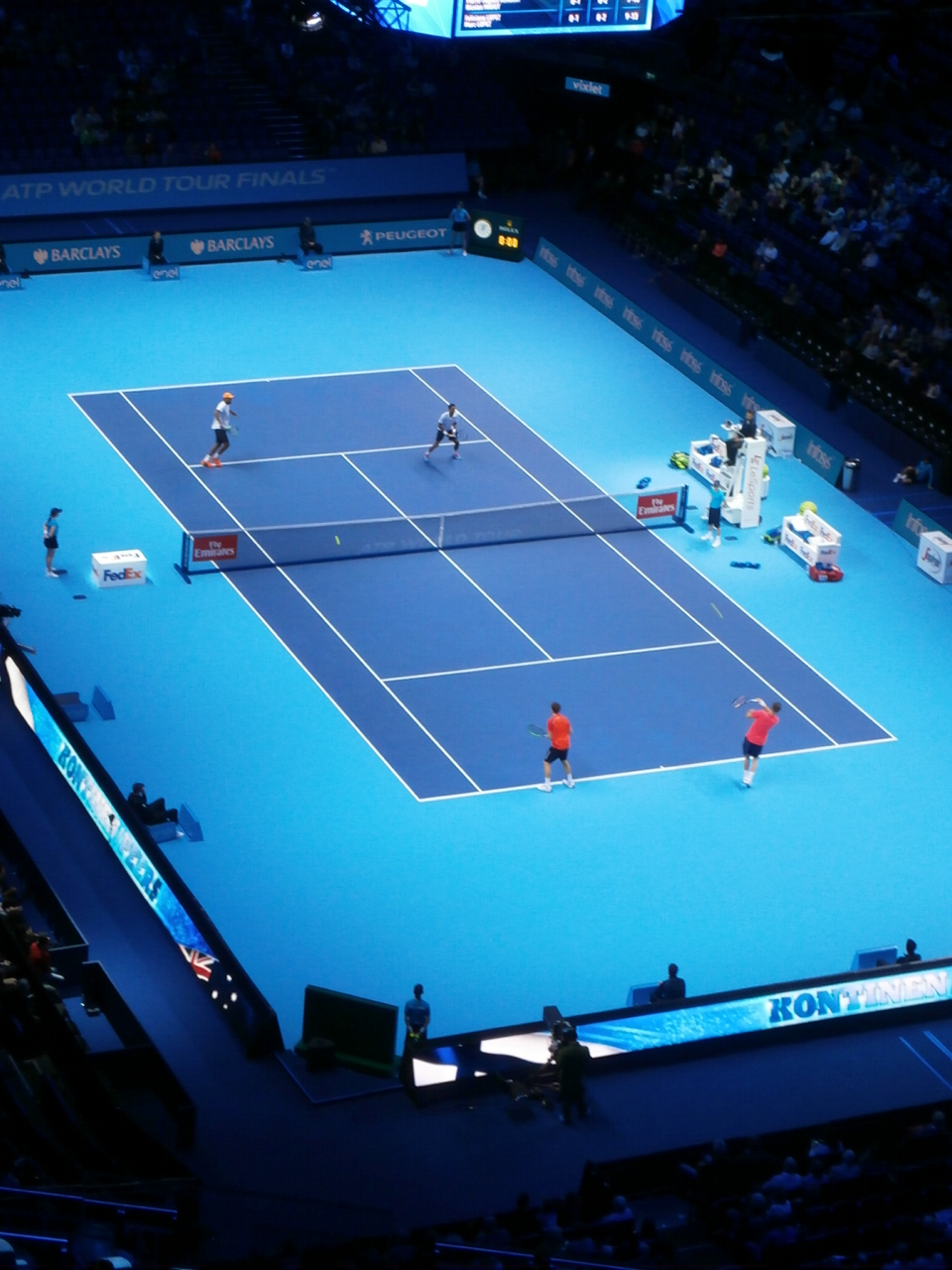 ATP Tour Finals 2016